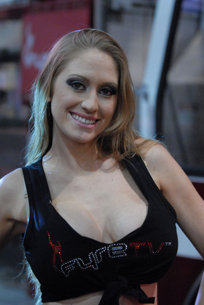 Abby Rode at AVN Adult Entertainment Expo 2008